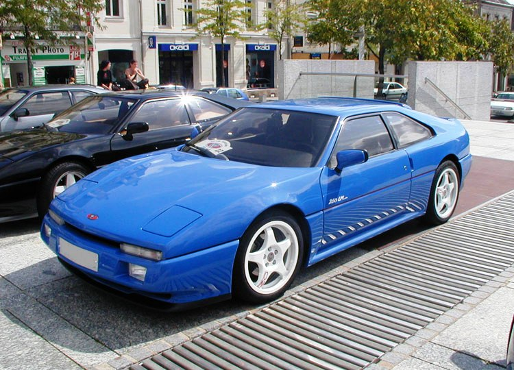 Venturi 260 LM French sport car